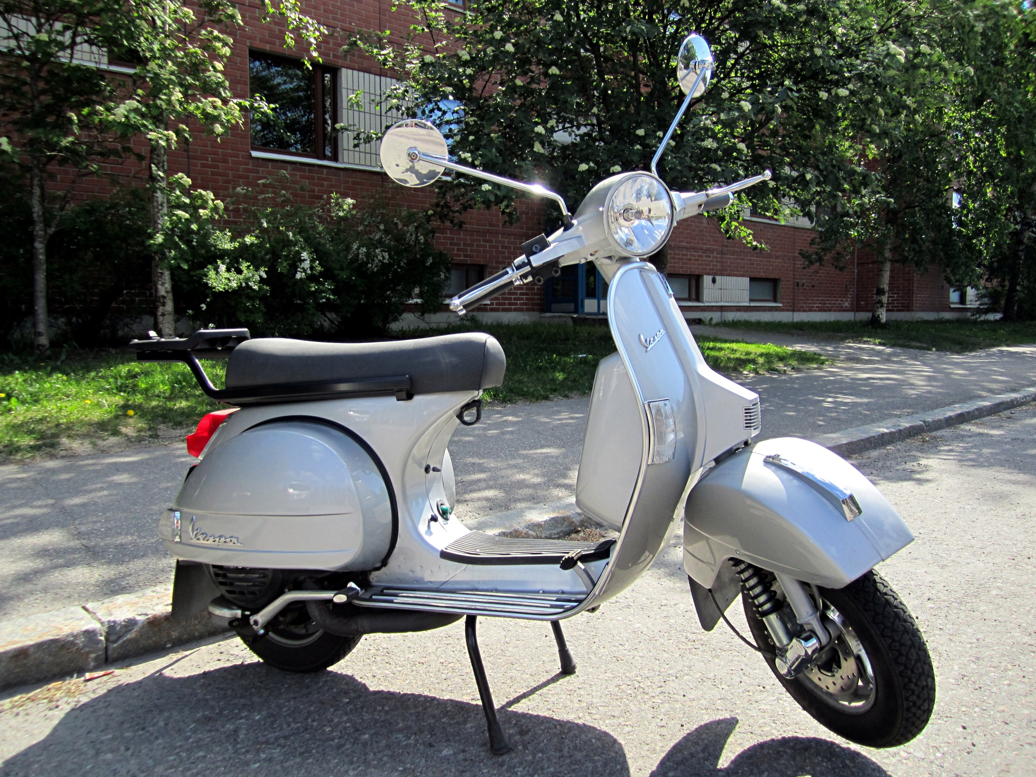 Piaggio Vespa PX 200 Millennium (year 2003). Single cylinder two-stroke engine, manual gear switch, kick and electric start.